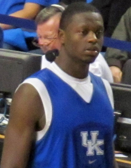 Julius Randle in Kentucky's 2013 Blue-White scrimmage game at Rupp Arena in Lexington, Kentucky